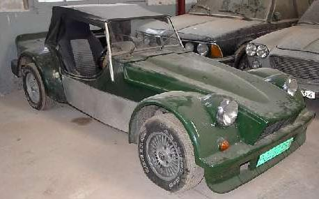 Dutton Phaeton 1981 Thats my car